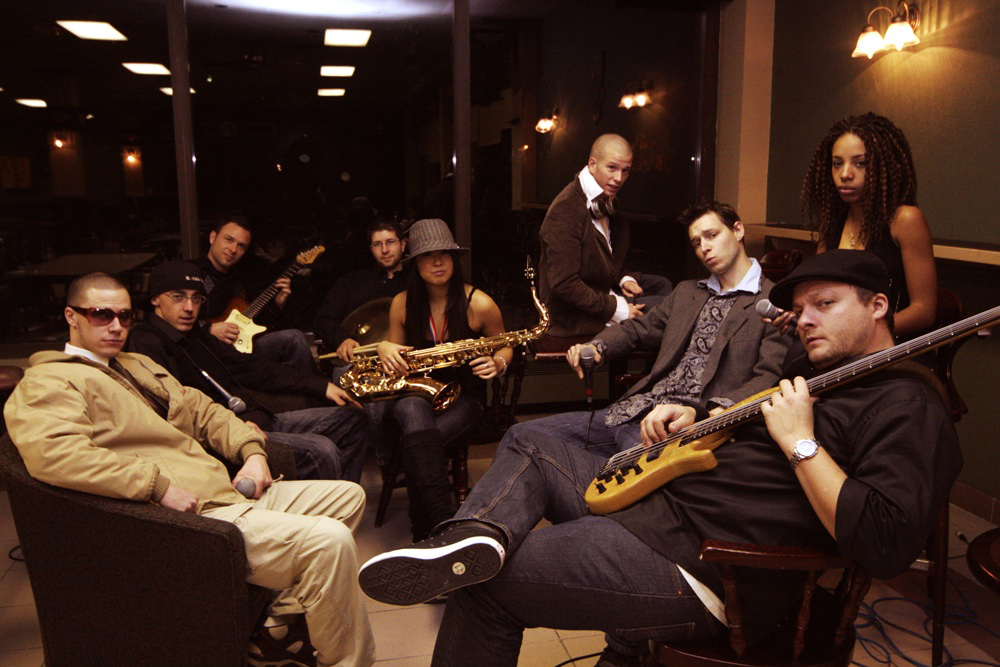 Picture of the rap band Lyrical Assault.